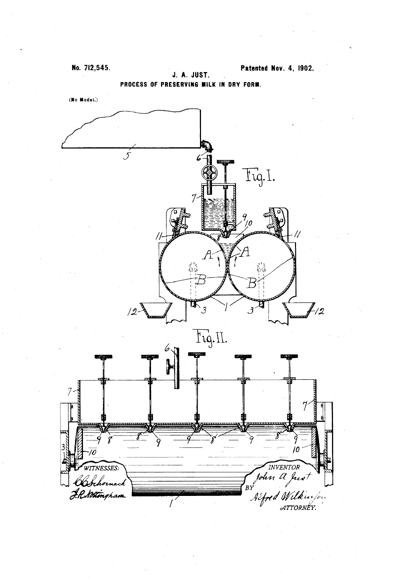 John Augustus Just's U.S. patent 712,545 for dry milk processing